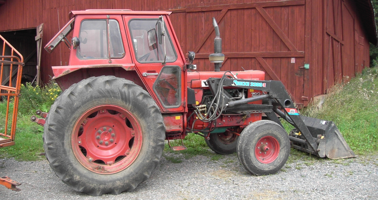 A Volvo BM 700 tractor, probably model #783 from the 1970s, with a Quicke (Ålö) front loader